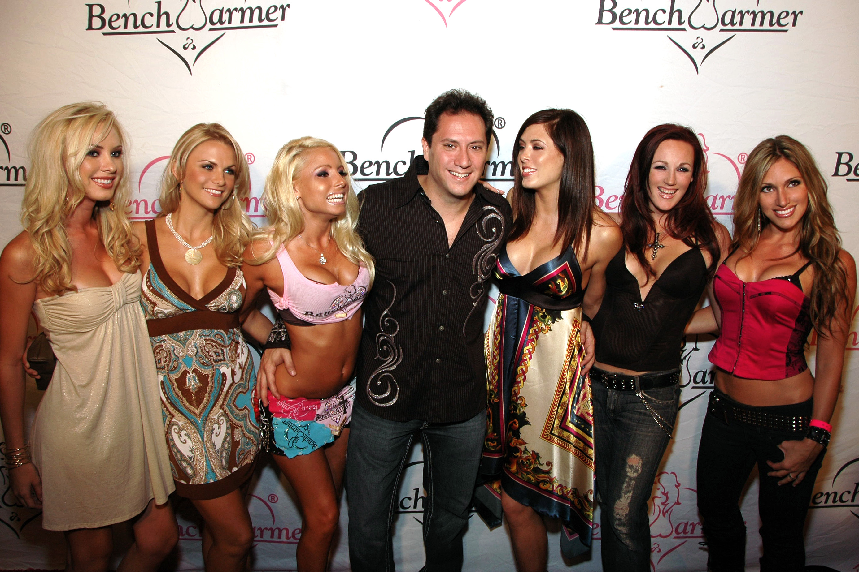 Benchwarmer Founder/Pres. Brian Wallos attending his Birthday Bash at Area, West Hollywood, 08-28-2007